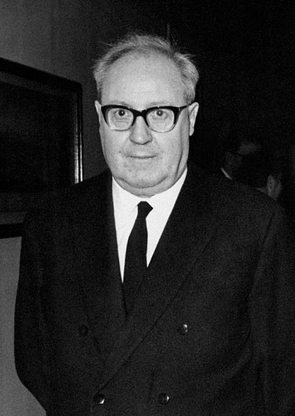 Minister of Foreing Affairs of the Italian Republic Giuseppe Saragat keeping his arms behind his back and smiling beside a man. Paris, December 1964.